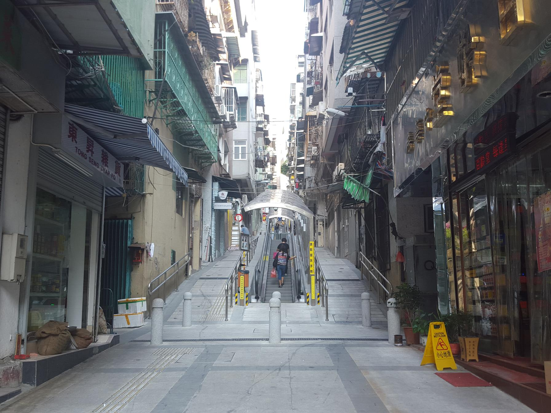 Rua da Surpresa Escalator and Walkway System